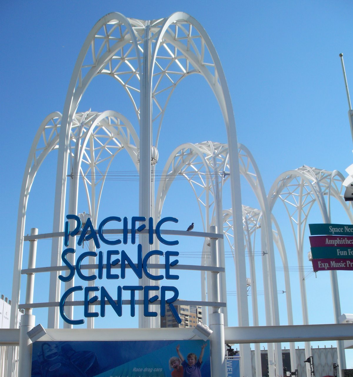 Pacific Science Center's exit